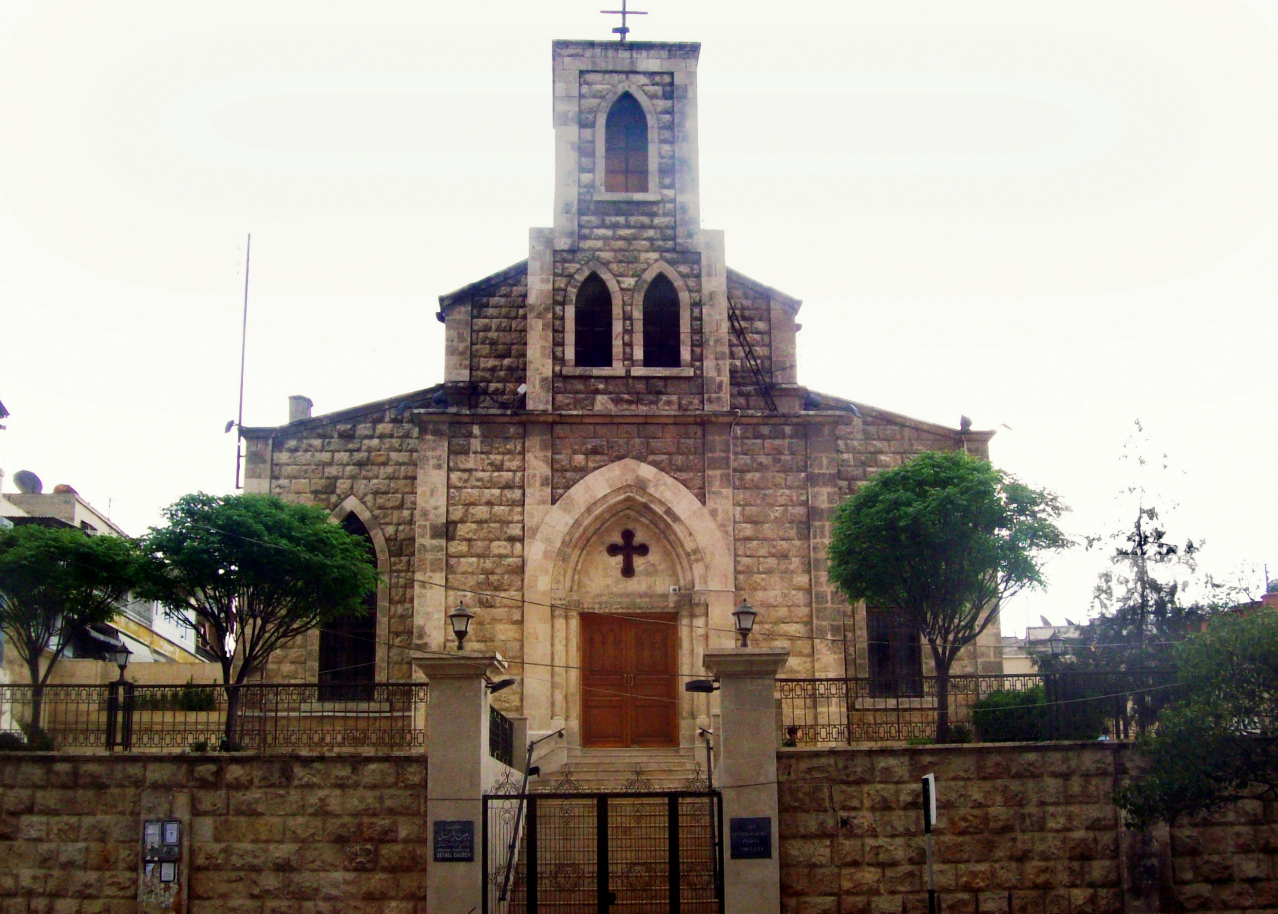 Bethel Armenian Evangelical Church in Aleppo